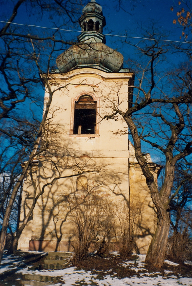 Church of the Visitation of Our Lady in Letov